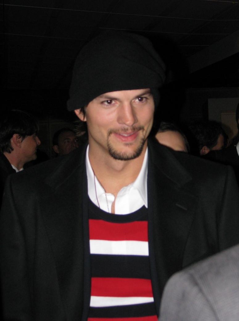 Ashton Kutcher at the Huffington Post Pre-Inaugural Ball.